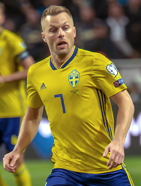 UEFA EURO qualifiers Sweden vs Romaina 20190323